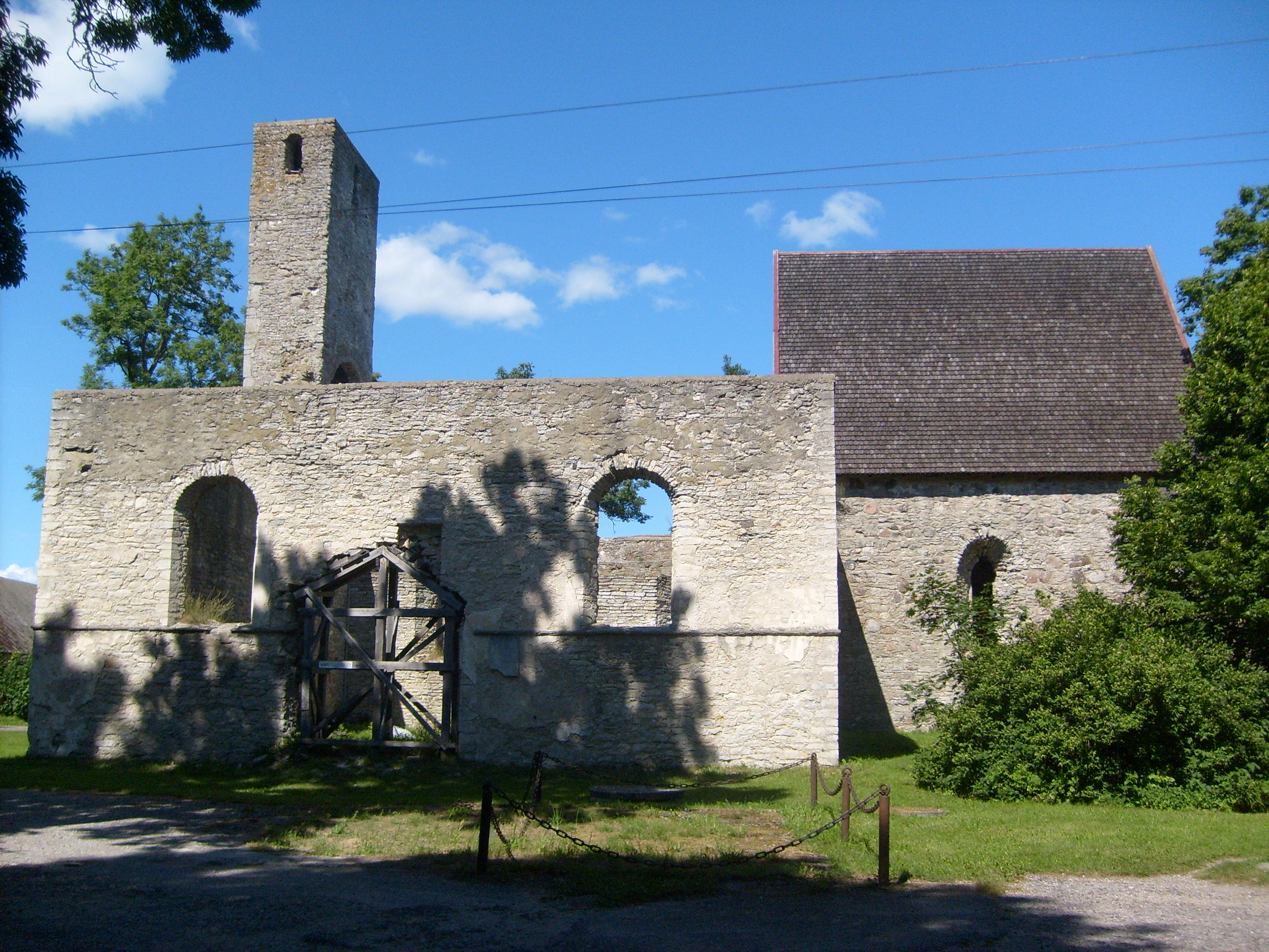 The ruins of the church in Käina, Hiiumaa, Estonia